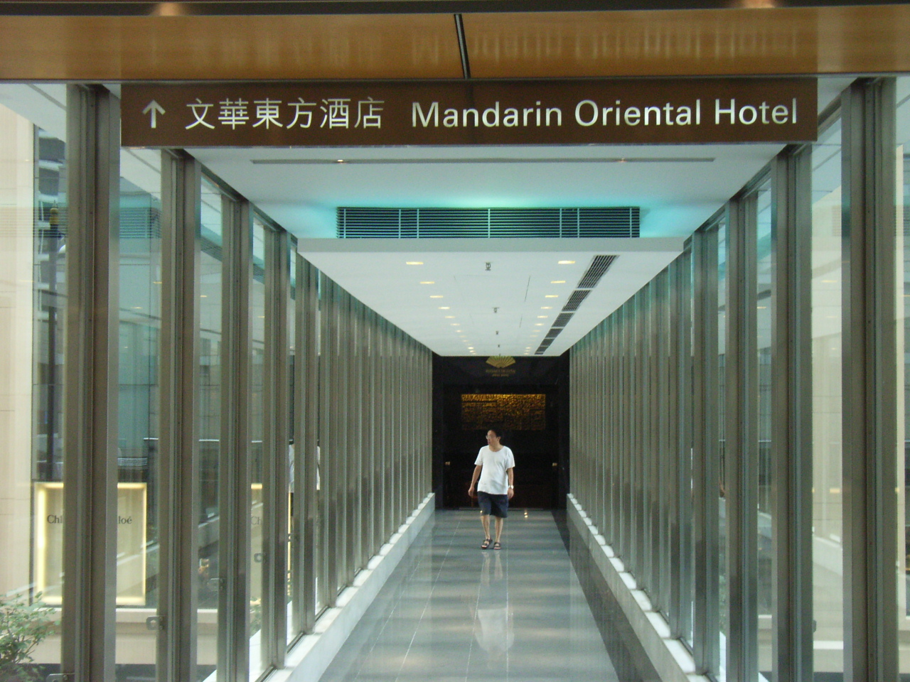 Mandarin Oriental, Hong Kong in Central(by KennethTom).